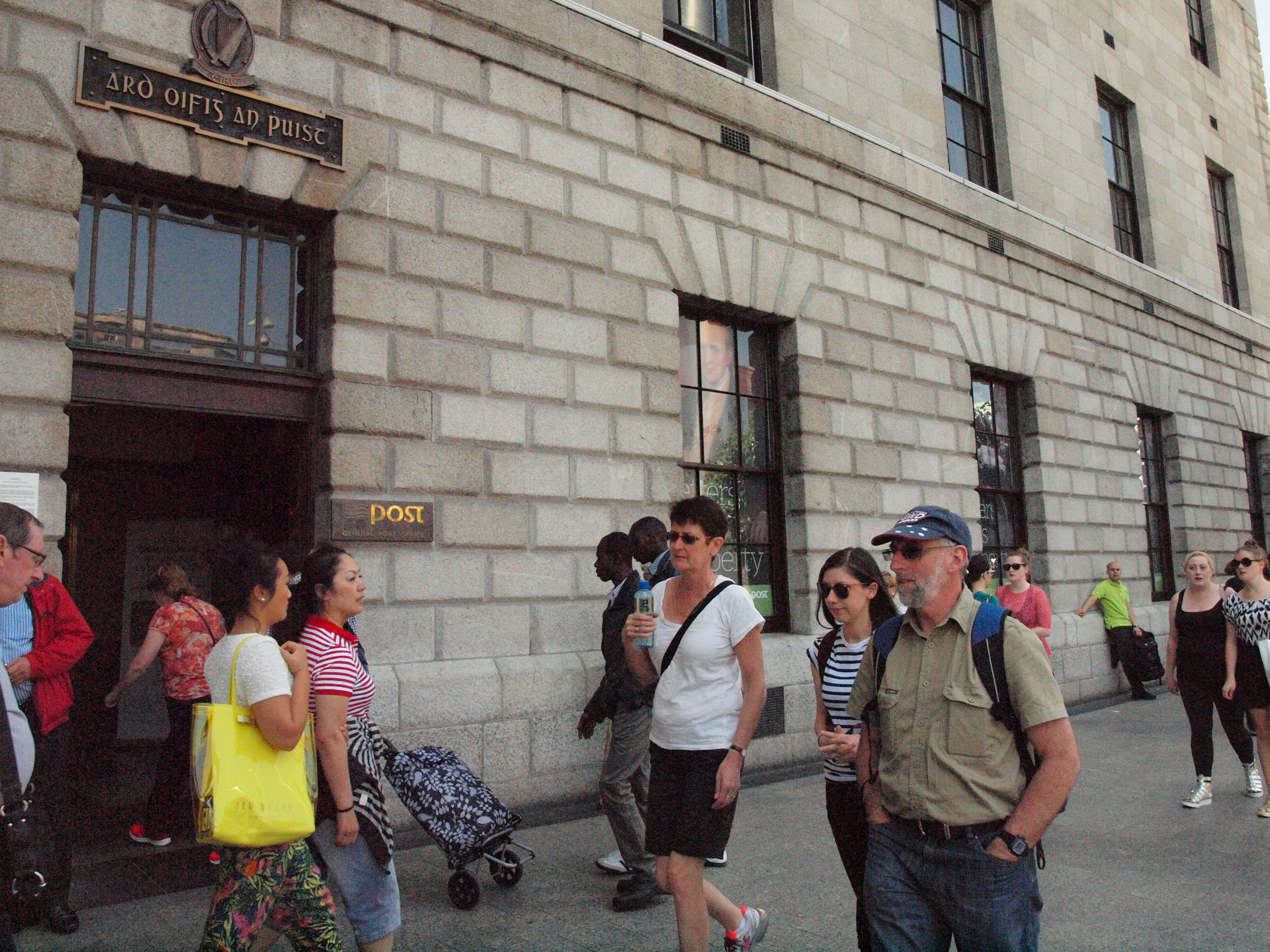 An Post Museum